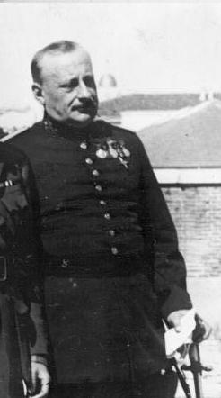 Dictator Miguel Primo de Rivera (r)